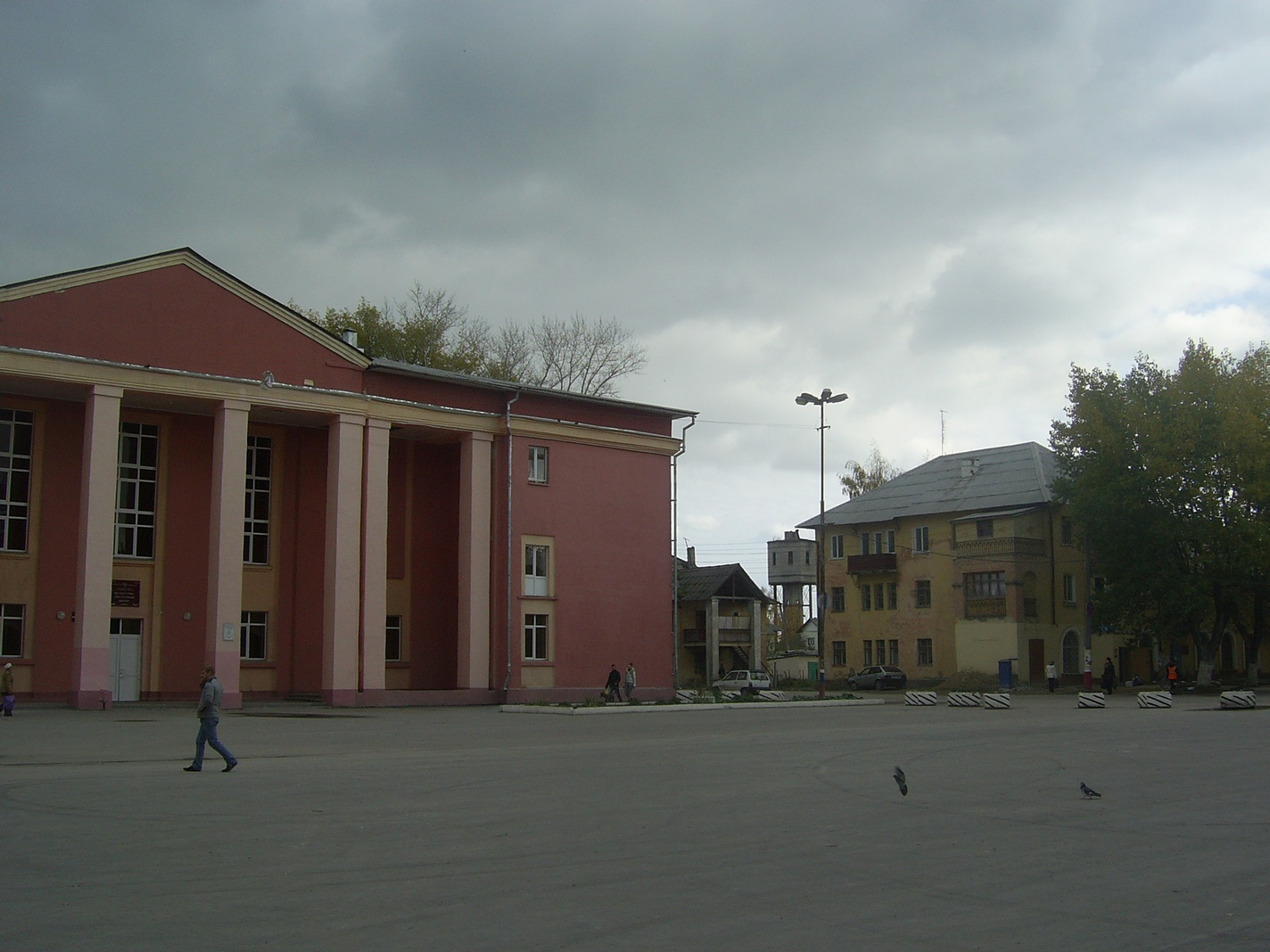 Central square of Fokino city (Bryansk Oblast)